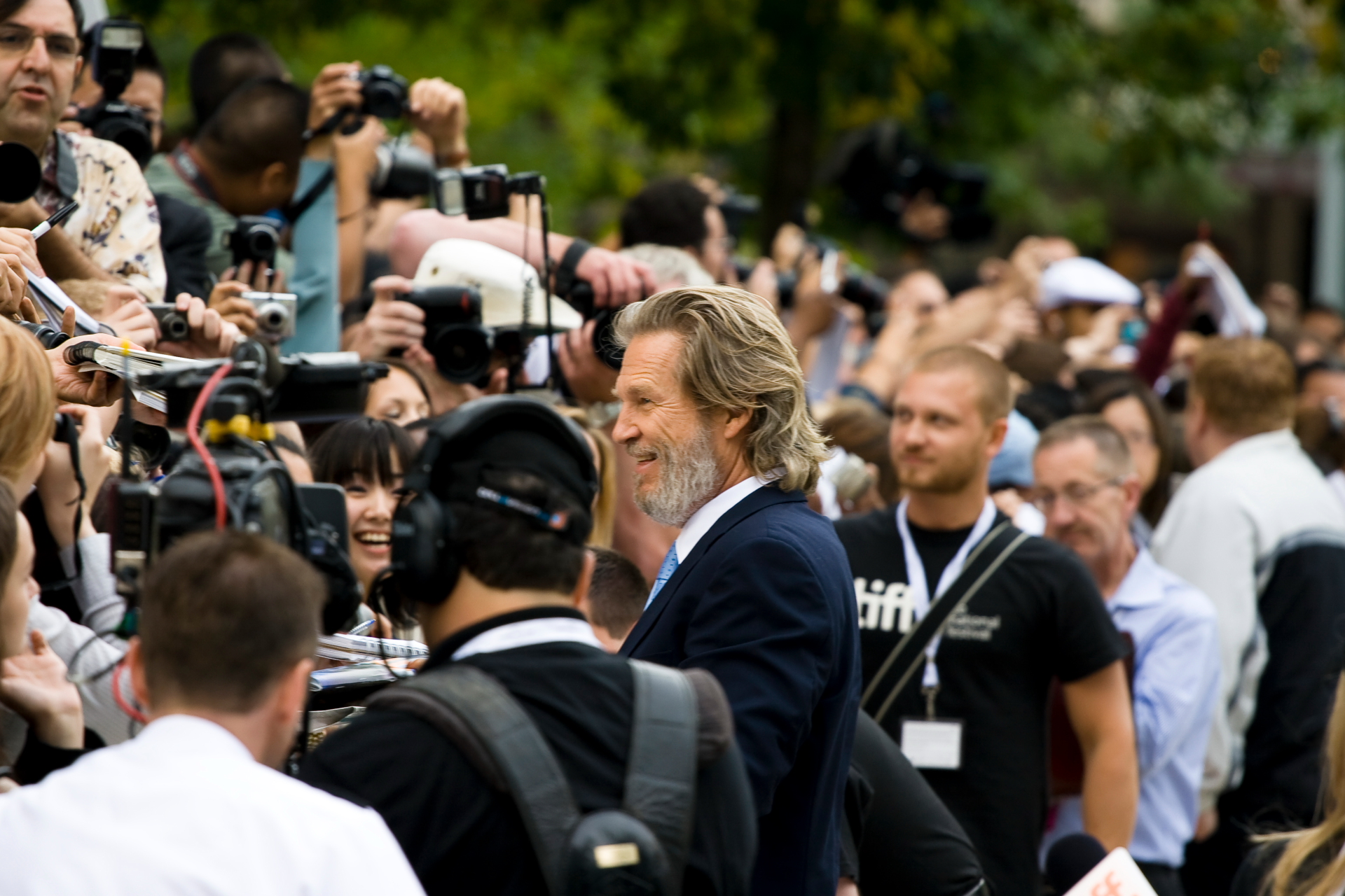 Jeff Bridges at the premiere of "The Men Who Stare at Goats" at the 2009 Toronto International Film Festival.